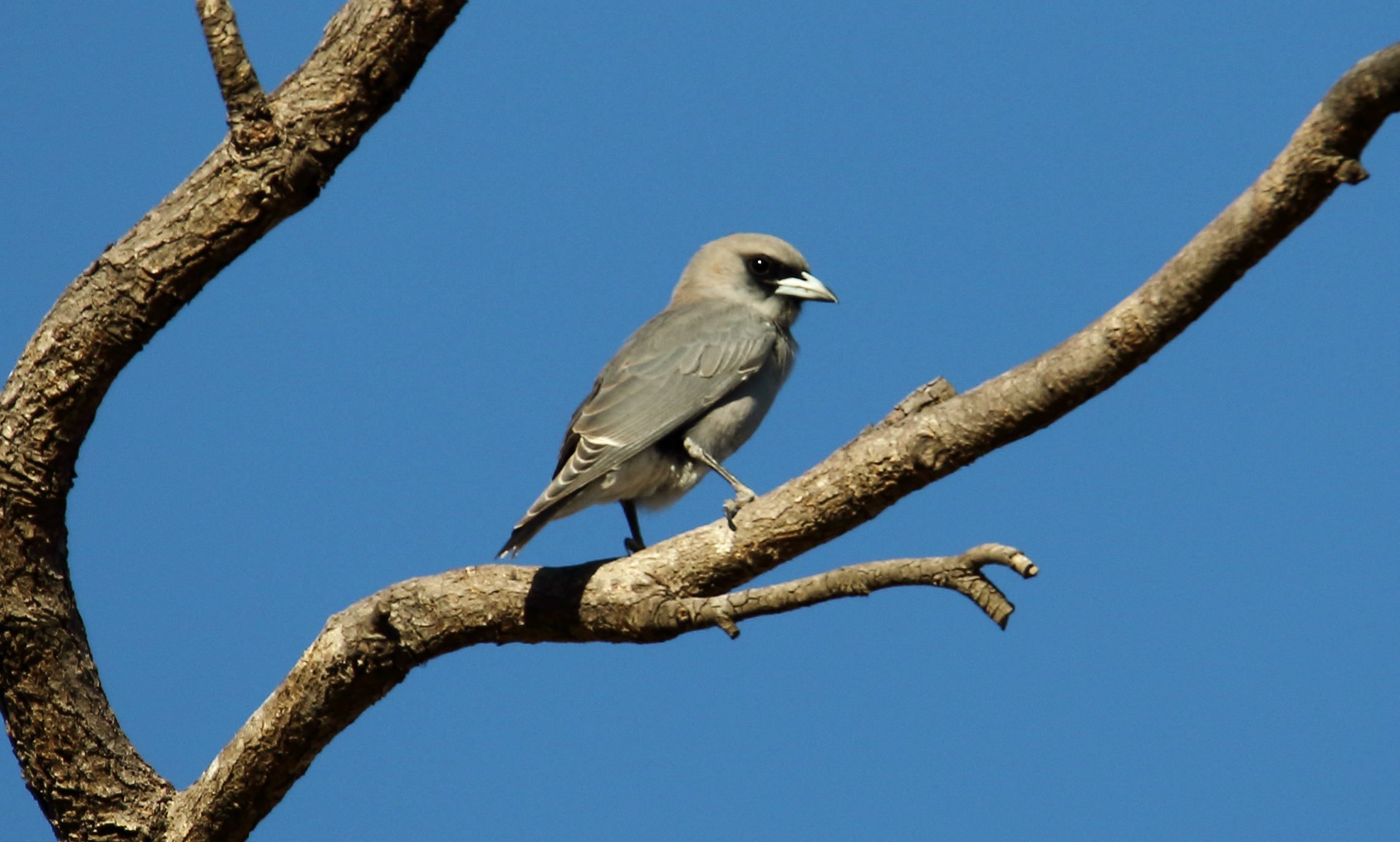 Black-faced Woodswallow (Artamus cinereus)